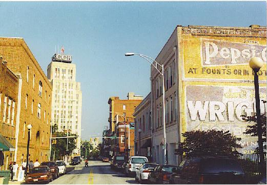 From categorization by User:Pacoperez6, seems to be a photograph of the city of Durham, North Carolina